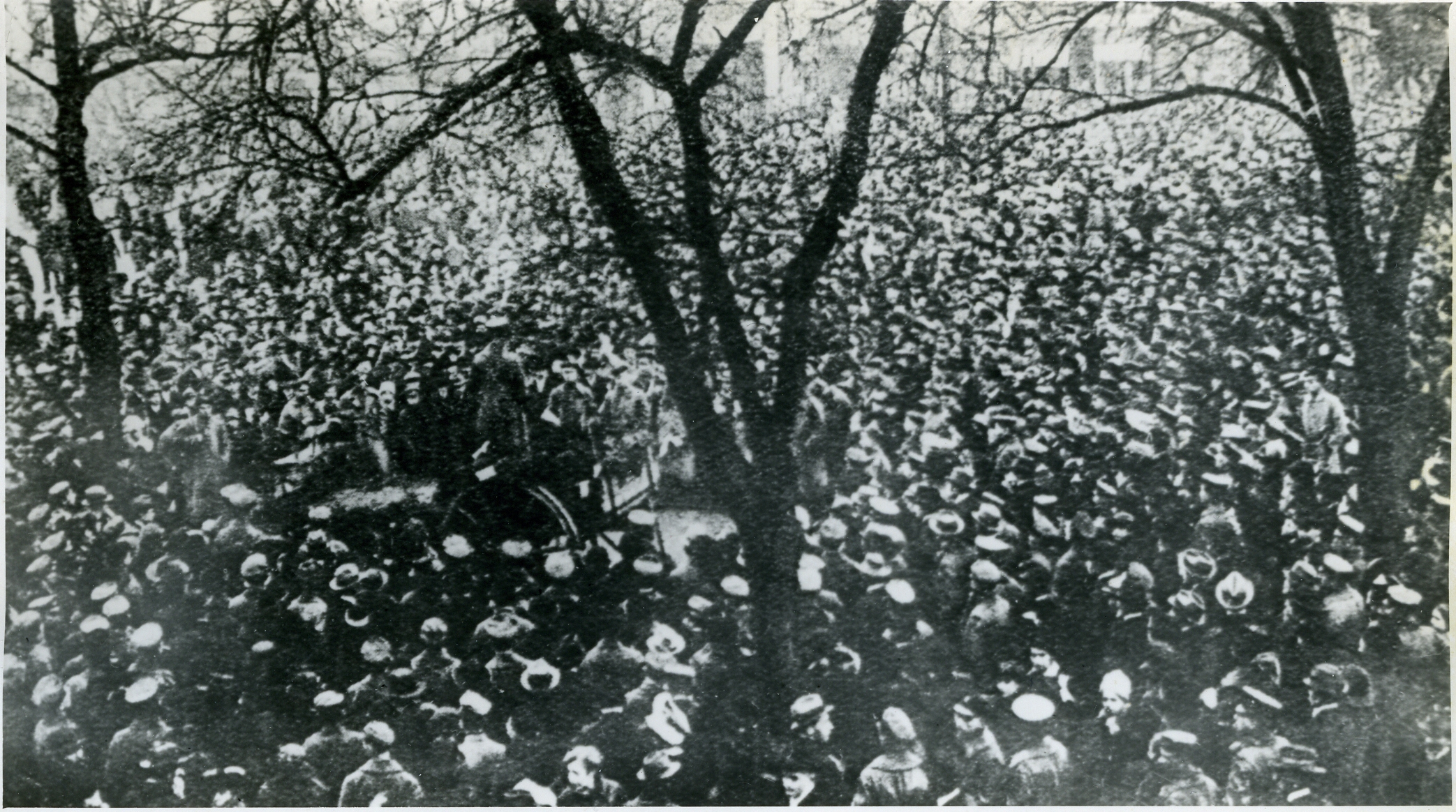 French text on the backside: Liberty square in Poznan, 10 november 1918. This public meeting has elected the commity of workers and soldiers in Poznan. D4601